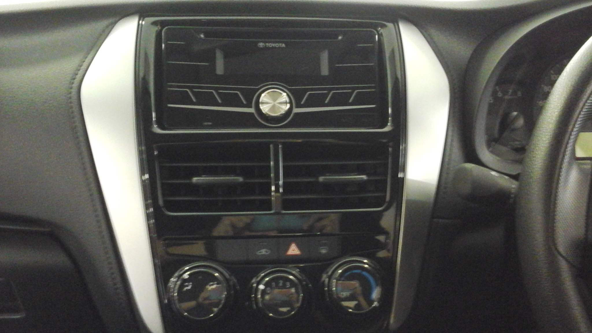 Audio system with CD, USB, Bluetooth, AUX and Radio interior of 2018 Facelifted Toyota Vios 1.5 5-speed manual model shown. Photographed in NBT Toyota (Bunut branch), Brunei.